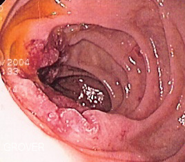 Endoscopic image of adenocarcinoma of duodenum seen in the post-bulbar duodenum. Photograph released under GFDL on permission of patient